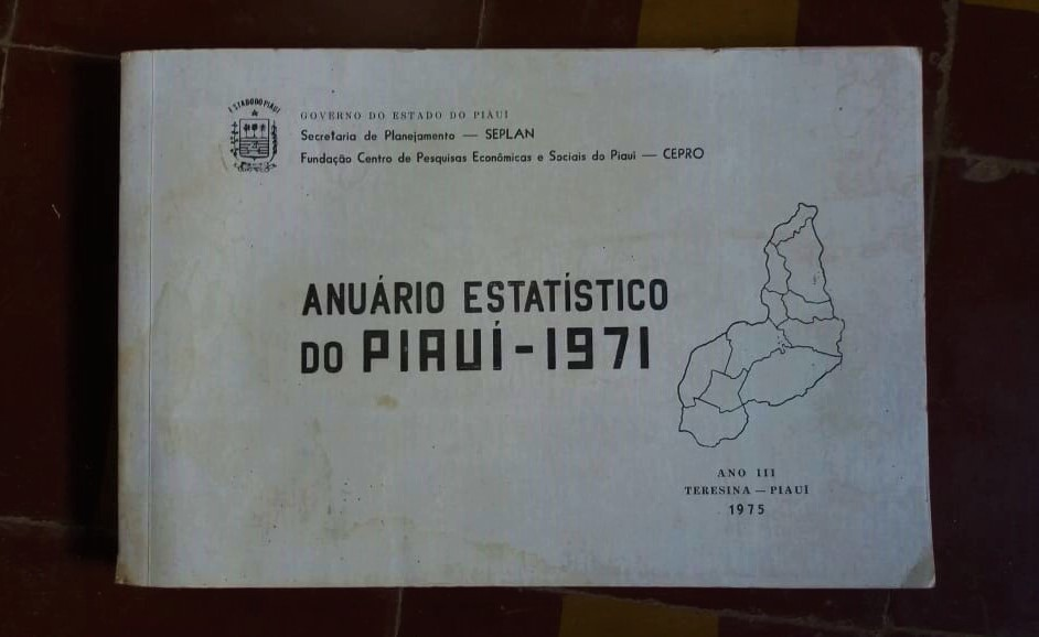 Piauí 1971